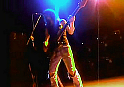 Burke Shelley and Budgie on stage